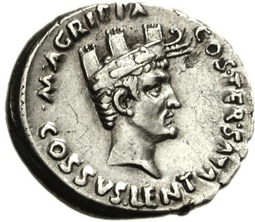 Augustus, with Agrippa. 27 BC-AD 14. AR Denarius (3/91 g, 6h). Rome mint. Cossus Cornelius Lentulus, moneyer. Struck 12 BC. AVGVSTVS COS • XI, head of Augustus right, wearing oak wreath / • M • AGRIPPA • COS • TER • COSSVS • LENTVLVS, head of Agrippa right, wearing mural and rostral crown. RIC I 414; RSC 1 (Agrippa and Augustus); BMCRE 121 = BMCRR Rome 4671; BN 548-50. Near EF, lightly toned, a couple of shallow scratches on reverse. Rare.